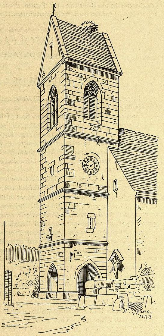 Tower of St. Afra, Mühlenbach, Baden-Württemberg, as in 1908